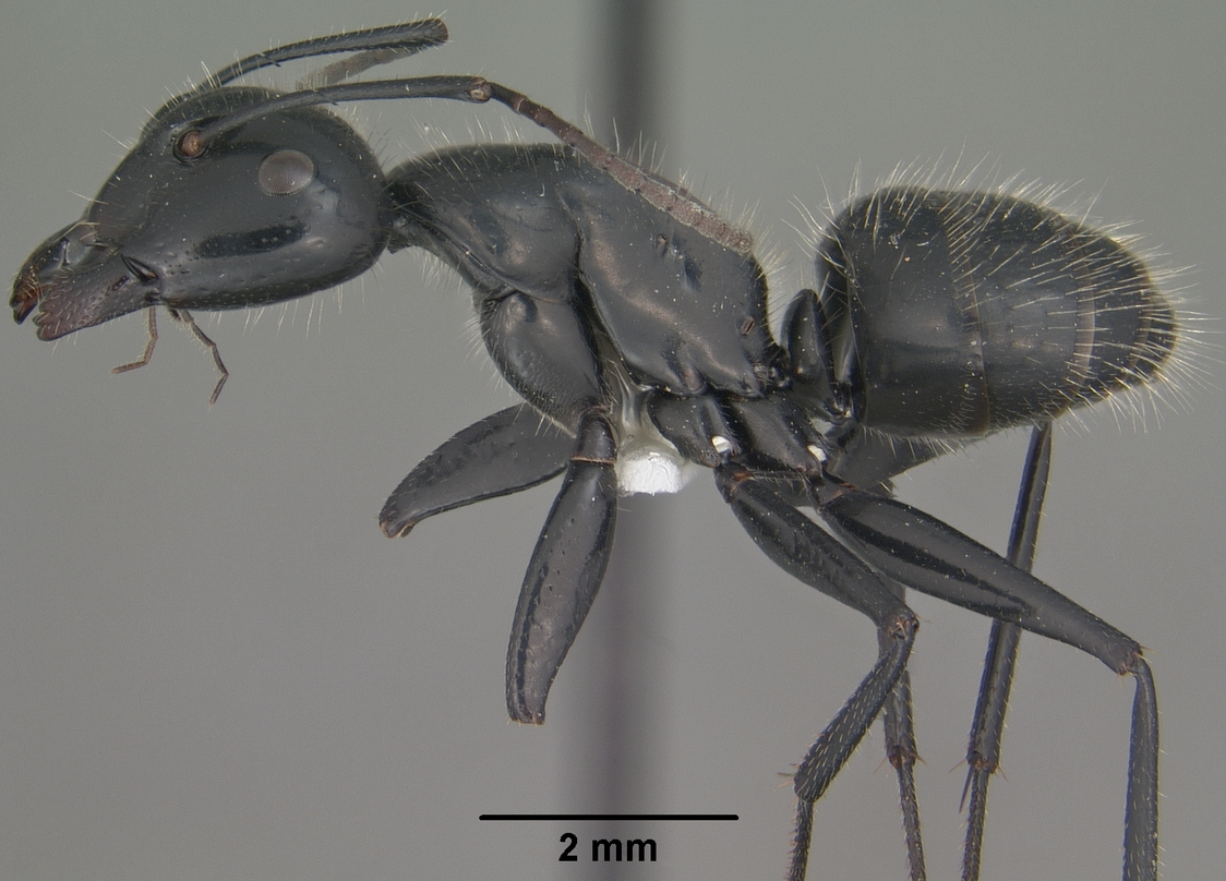 Profile view of ant Camponotus laevigatus specimen casent0102776.